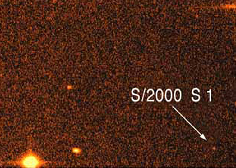 The photo shows the discovery of two new Saturnian moons, as registered on August 7, 2000, with the Wide-Field Imager (WFI) camera at the MPG/ESO 2.2-m telescope at the La Silla Observatory. It displays the faint image of the newly discovered moon S/2000 S 1 in the lower right corner of the field. A spiral galaxy is seen in the upper left corner of this photo. The other objects are (background) stars in the Milky Way. Technical information: 100 sec exposure in R-band filter. The field measures approx. 2.2 x 3.0 arcmin^2. North is up and East is left.